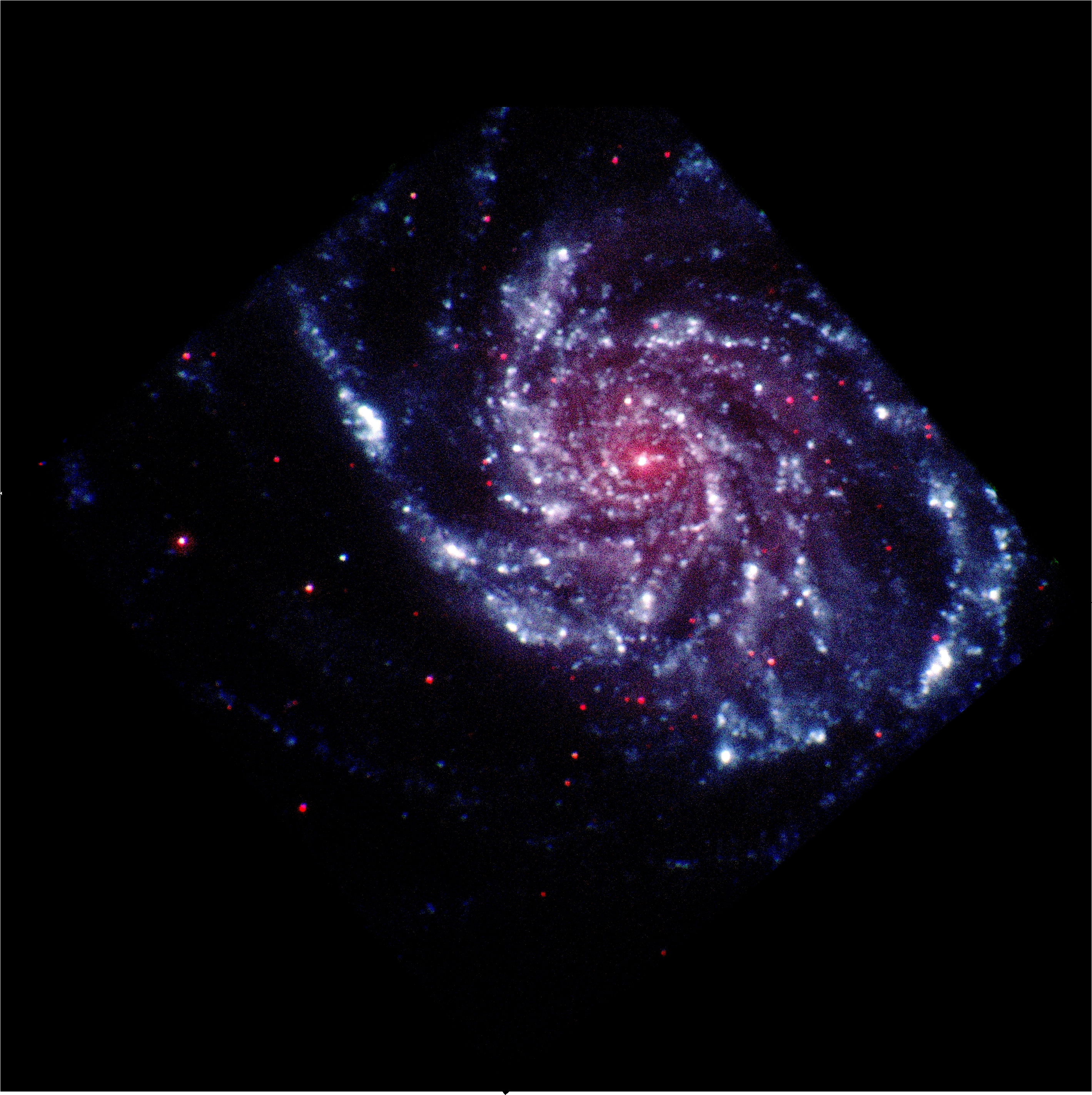 First-light image from the Swift Gamma-Ray Burst Mission's UVOT instrument, of the M101 "Pinwheel" Galaxy. This UVOT image combines both ultraviolet and visible light from a number of filters. Each filter is sensitive to light of a different color, ranging from ultraviolet light beyond the range of human eyesight through the blue to yellow portion of the visible spectrum. This is a 'false-color' image with the shortest wavelength ultraviolet rays being represented as blue, and the longest visible light wavelengths as red. The image shows that hot young stars are being formed in abundance in M101, especially in the spiral arms of the galaxy, where they show up in ultraviolet light. The central regions of the galaxy have more cool, old stars, which appear 'red' in the picture. A number of foreground stars, located in our own Galaxy, also reveal themselves by their red color.